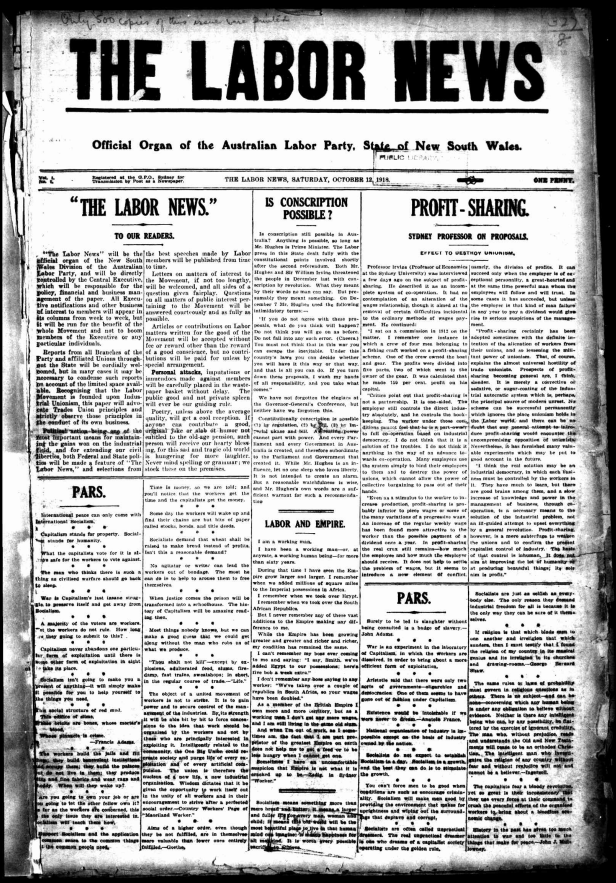 The front page of the Labor News on 12 October 1918.